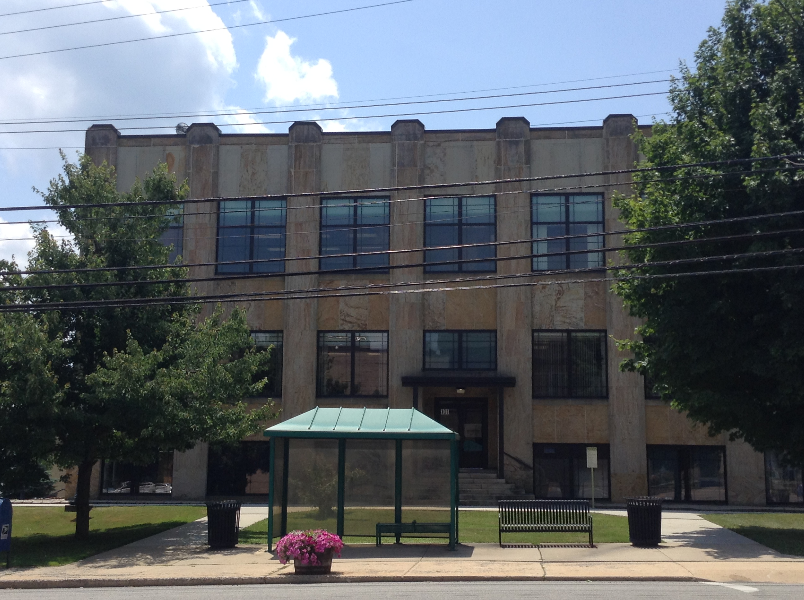 Preston County Courthouse in Kingwood, WV